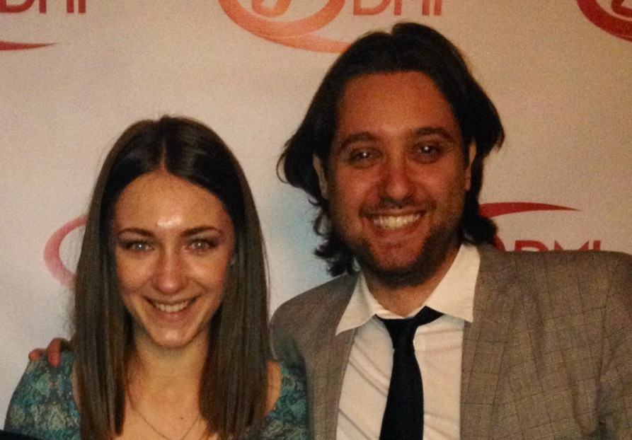 27 time Grammy and 2 time Academy Award nominated Producer & Arranger Jorge Calandrelli, multi award winning Composer & Pianist Sonya Belousova and composer Giona Ostinelli at the DMI Grammy Party